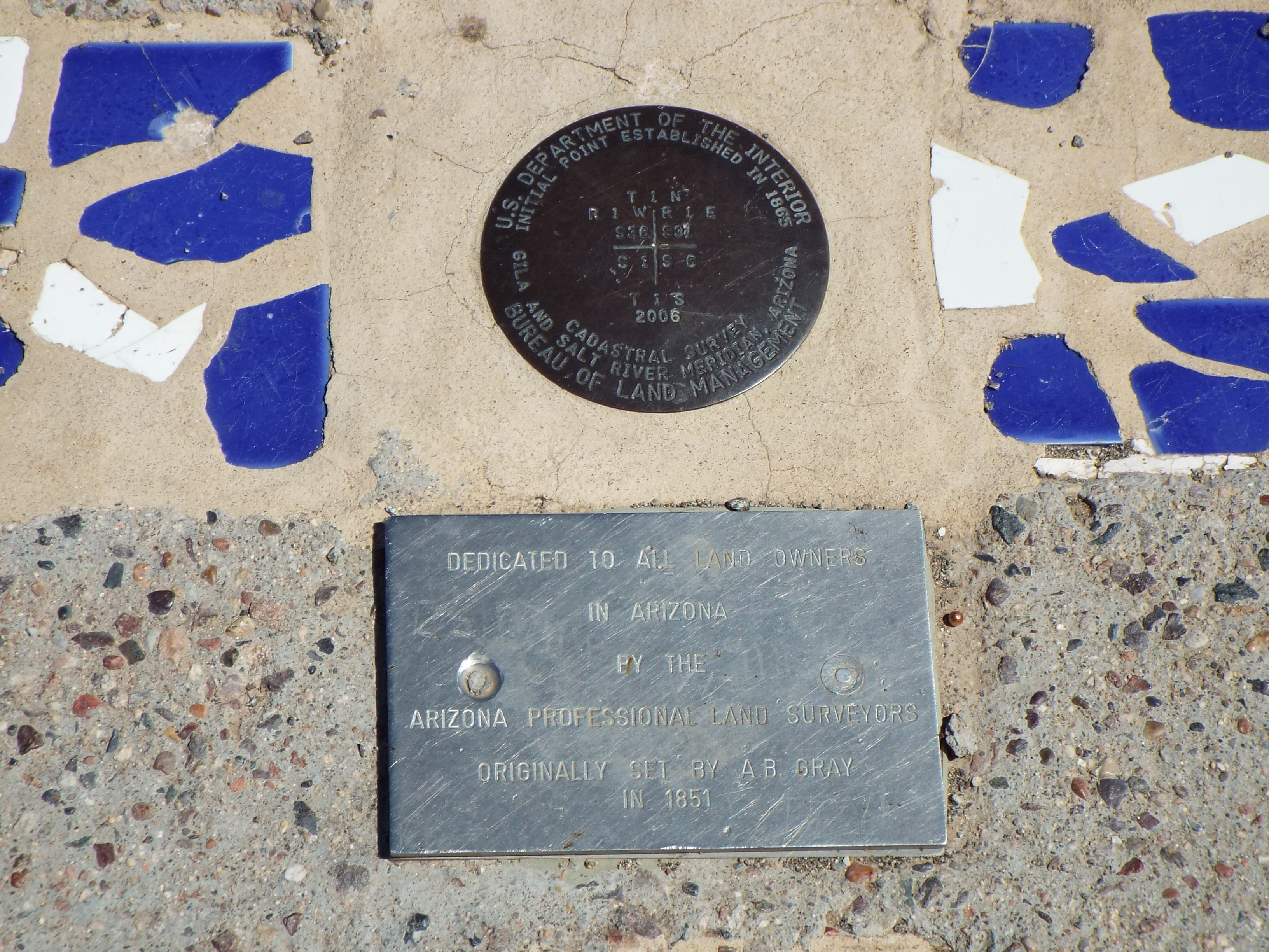 Marker of the initial point of the Gila and Salt River Meridan on Monument Mountain in Avondale Az. The following is engraved on the round marker: U.S. Department of the Interior Bureau of Land Management. Initial Point of Establishment in 1865. Gila and Salt River Meridian, Arizona. Cadastral Survey. The rectangular marker states the following: dedicated to all land owners in Arizona by the Arizona Professional Land Surveyors originally set by A. B. Gray in 1851. Listed in the National Register of Historic Places on October 15, 2002, reference #02001137.